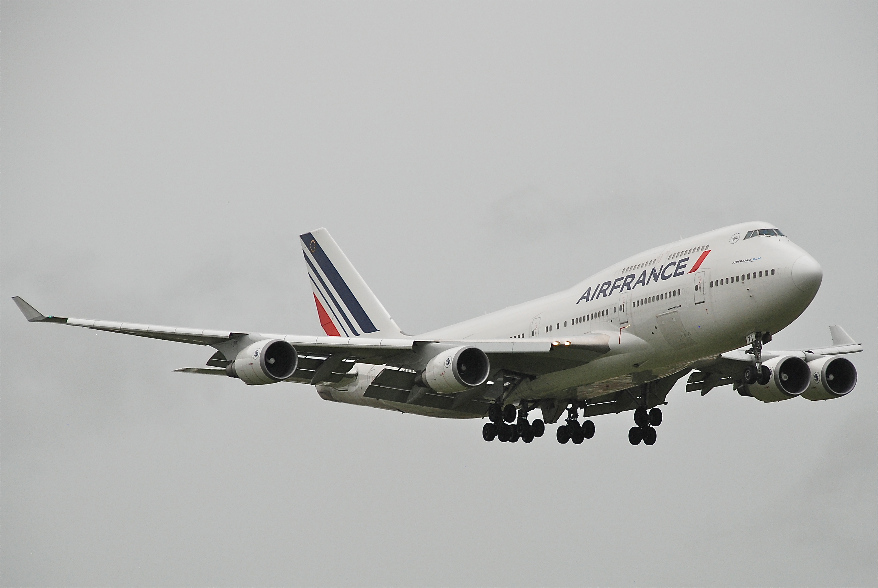 Air France Boeing 747-400; F-GITI@MIA;17.10.2011/626lu. Air France is currently in the process of replacing the Boeing 747-400 with the larger Airbus A380. This process is due to be complete by 2016.